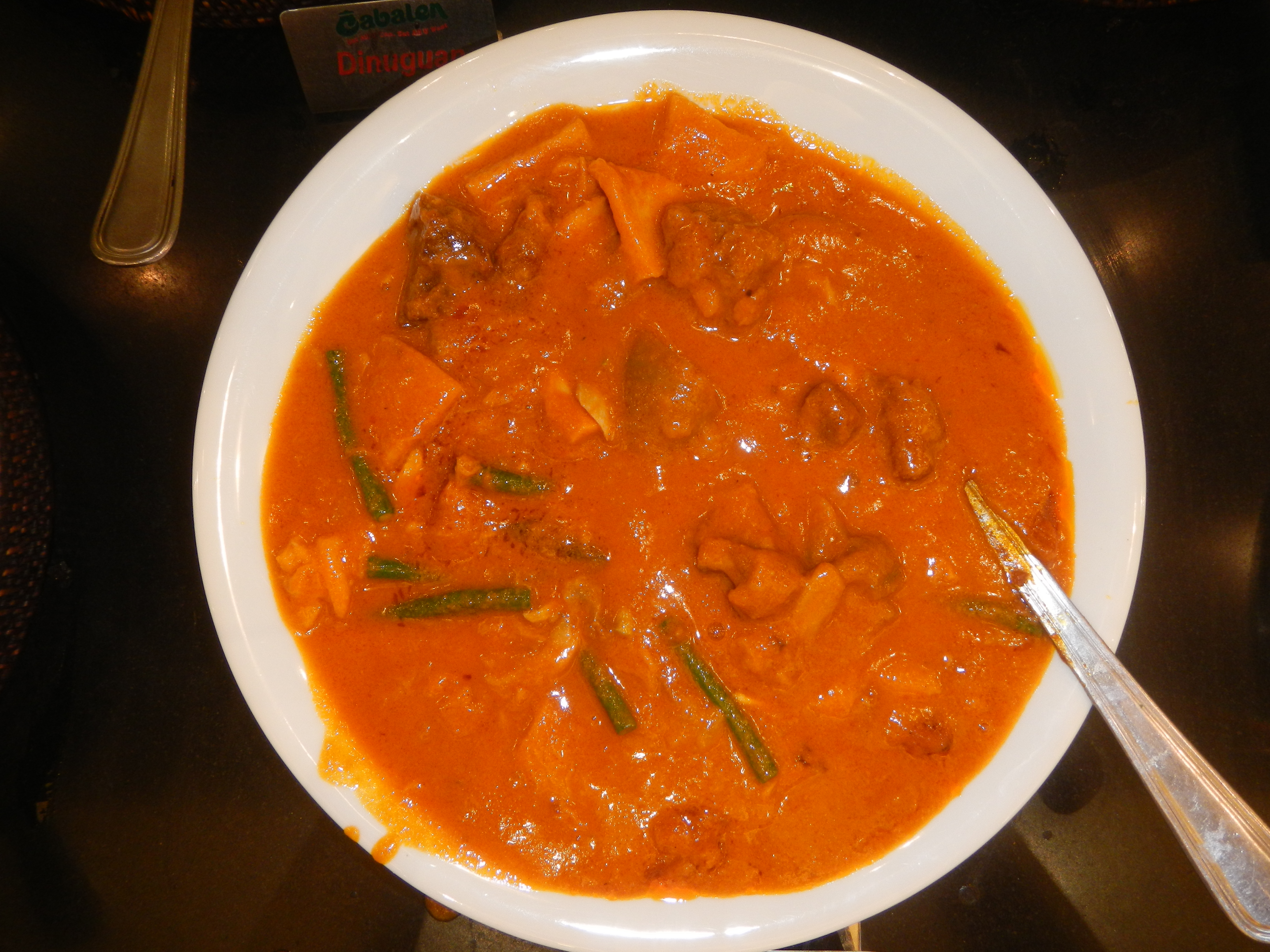 Ginataang langka Bopis Kare-Kare Dinuguan Ginataan Bopis (Note: Judge Florentino Floro, the owner, to repeat, Donor Florentino Floro of all these photos hereby donate gratuitously, freely and unconditionally all these photos to and for Wikimedia Commons, exclusively, for public use of the public domain, and again without any condition whatsoever).